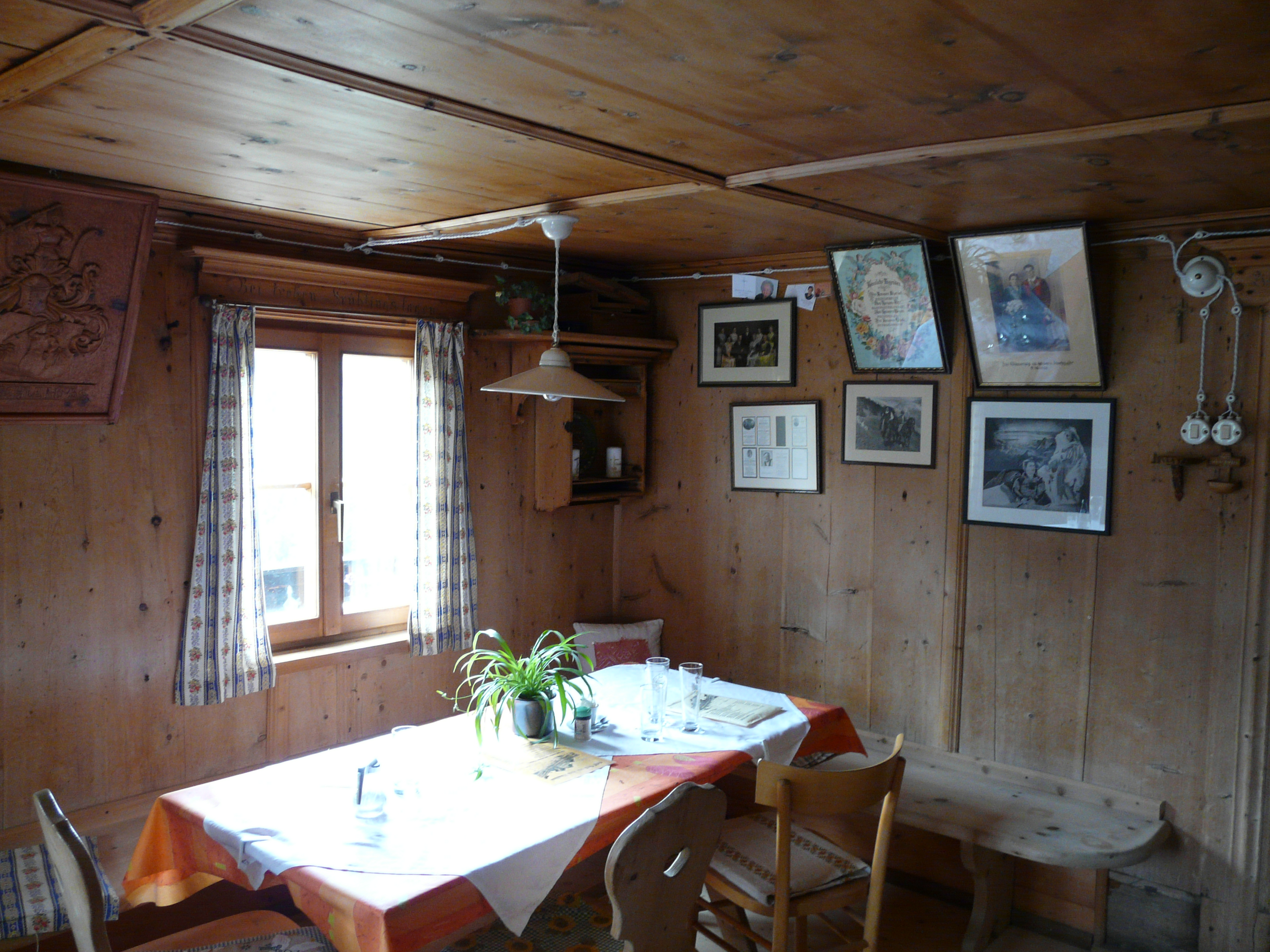 Finailhof